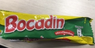 51 calorie serving package